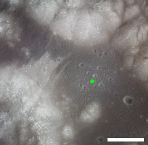 Green dot shows location of Emory, Taurus-Littrow Valley, on the moon. Scale bar at lower right is 5 km.